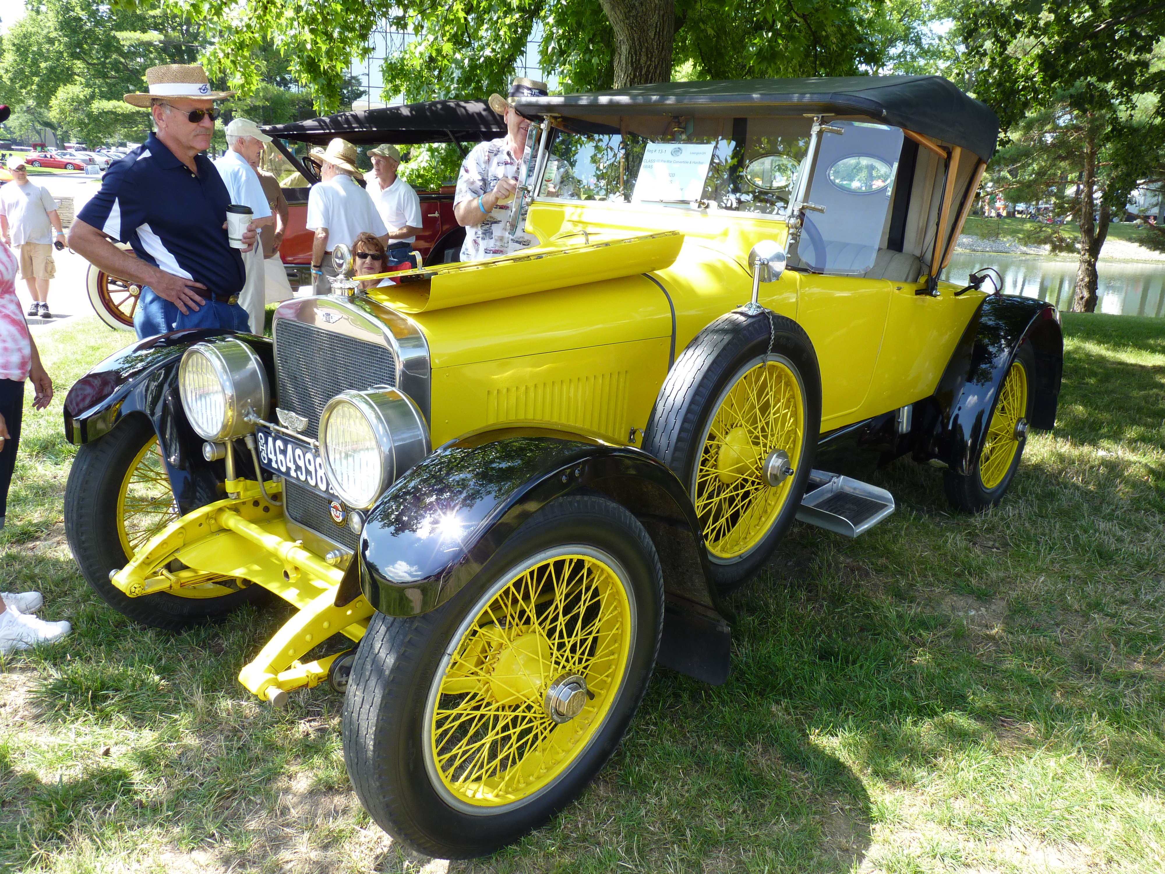 1920 HCS Series 2 Roadster2013 Arthritis Foundation Car ShowDublin, Ohio, United States